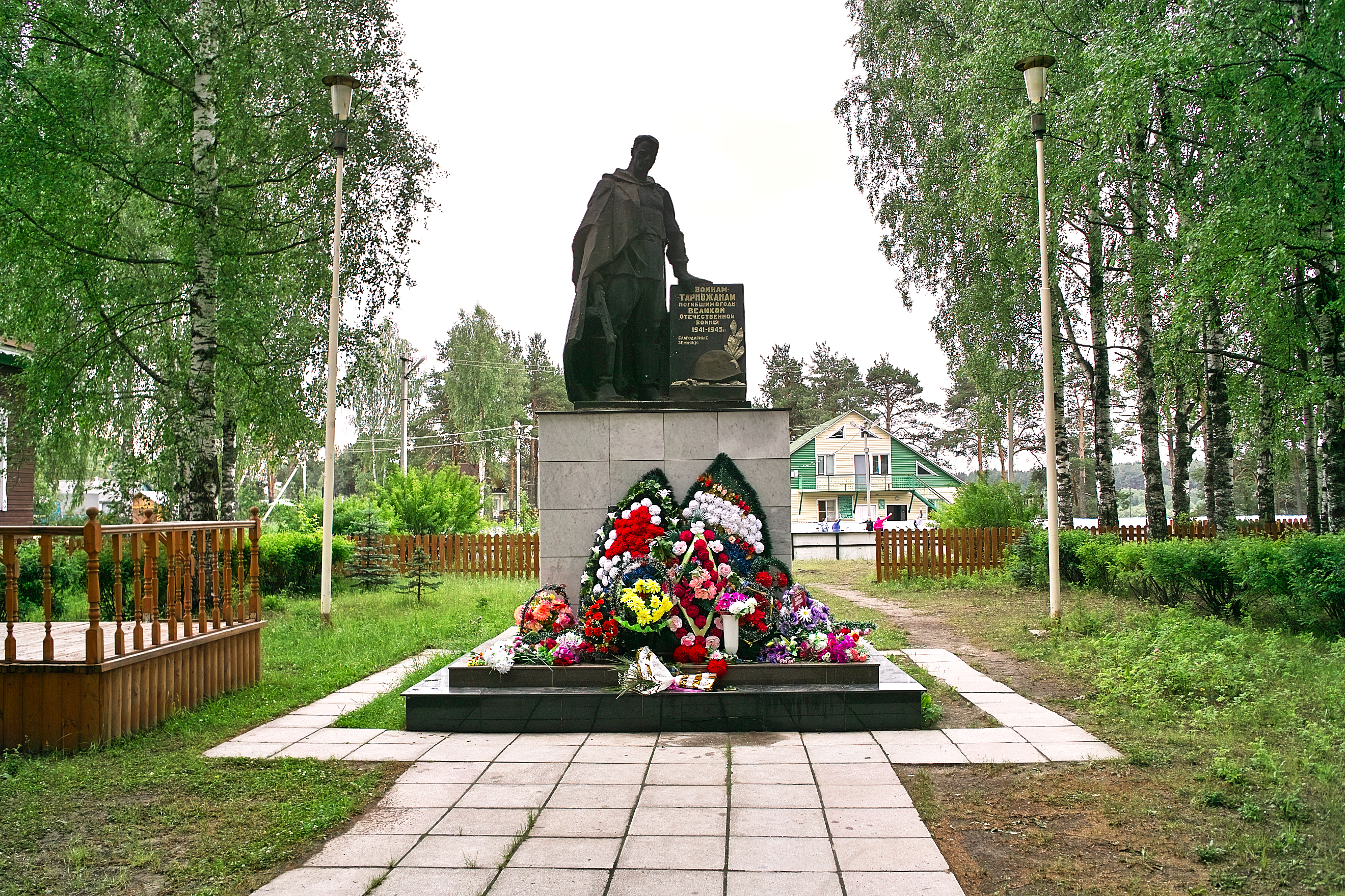 Pamyatnik, Tarnogskij gorodok